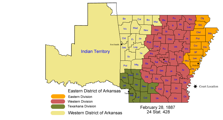 Arkansas districts - Feb 28, 1887